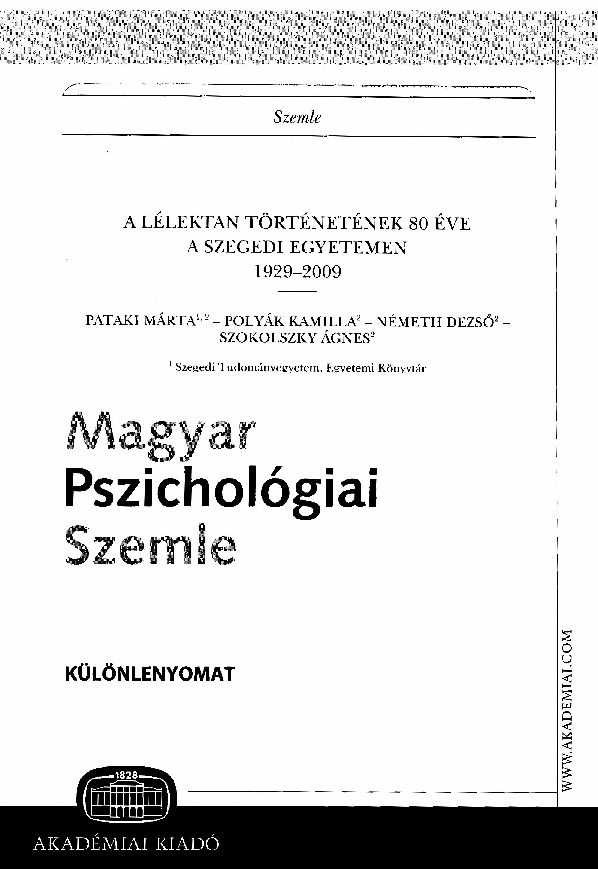 Off print is from Hungarian Journal of Psychology